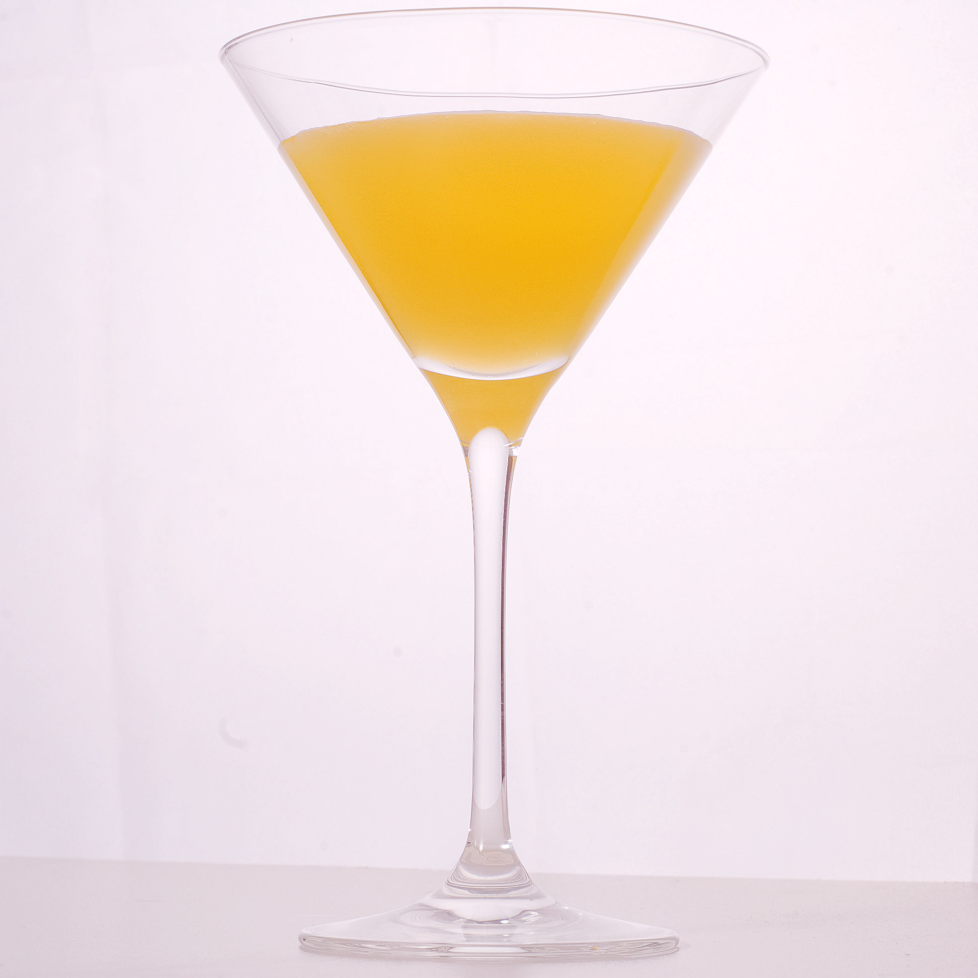 Recipe can be found at